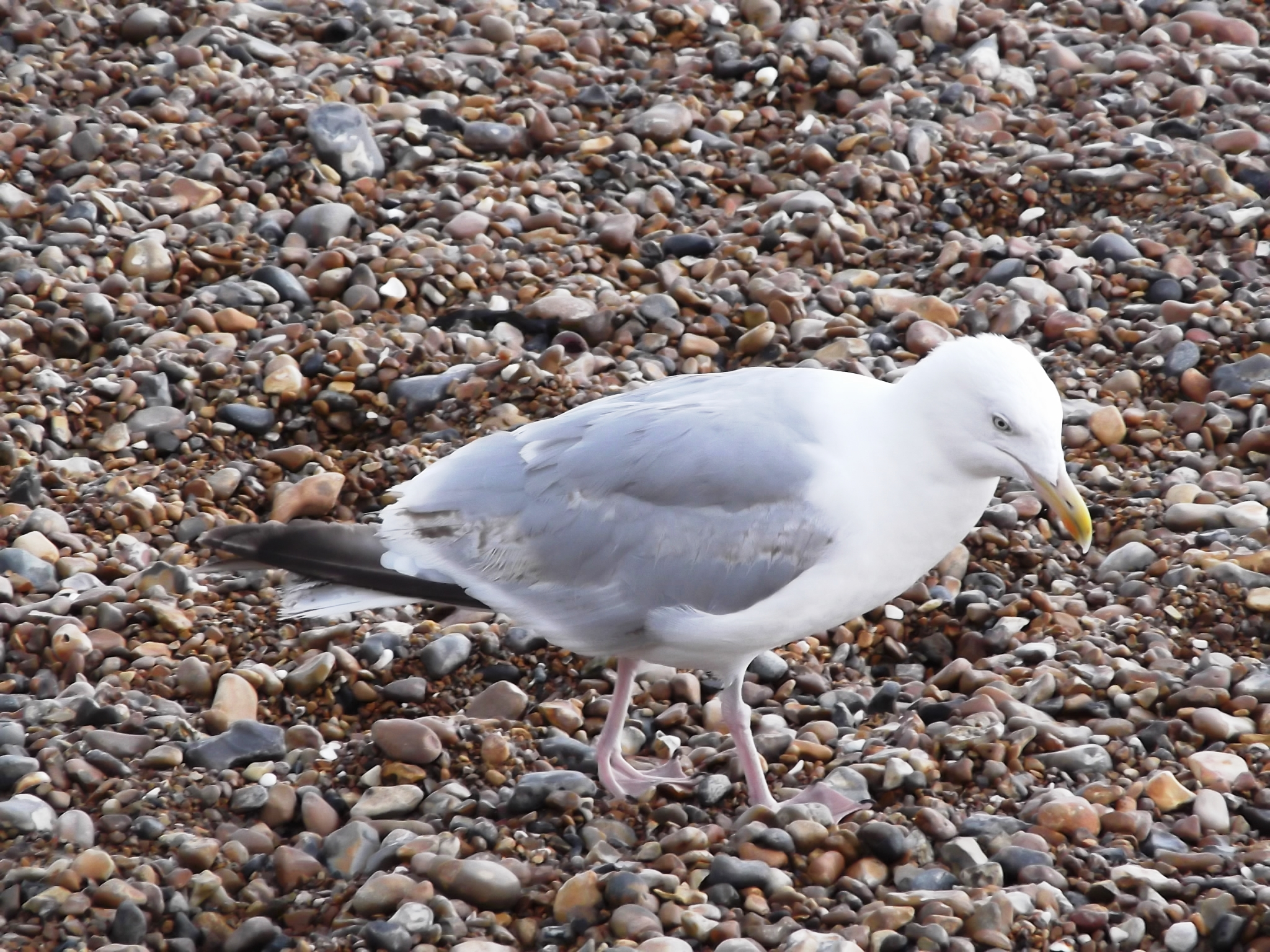 Silbermöwe (Larus argentatus)